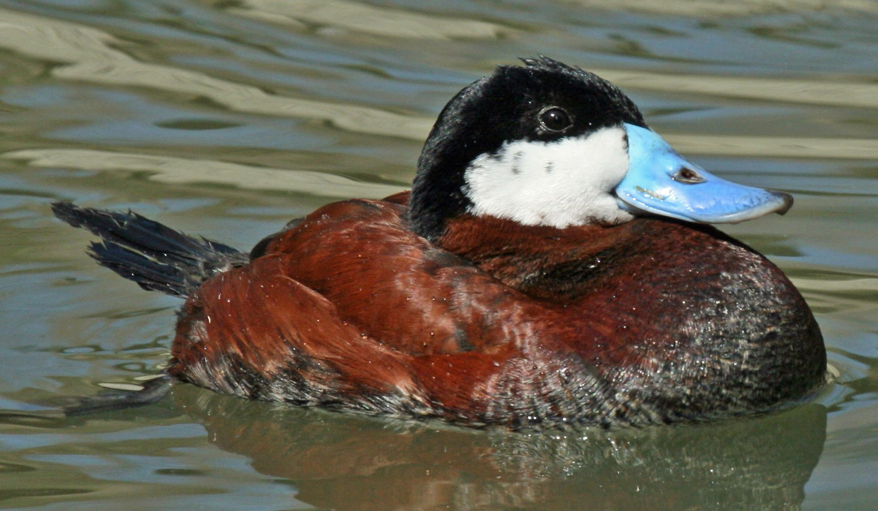 Crop of file in filename